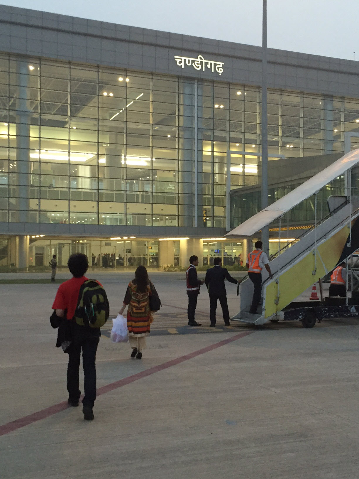 Chandigarh Airport Terminal Building